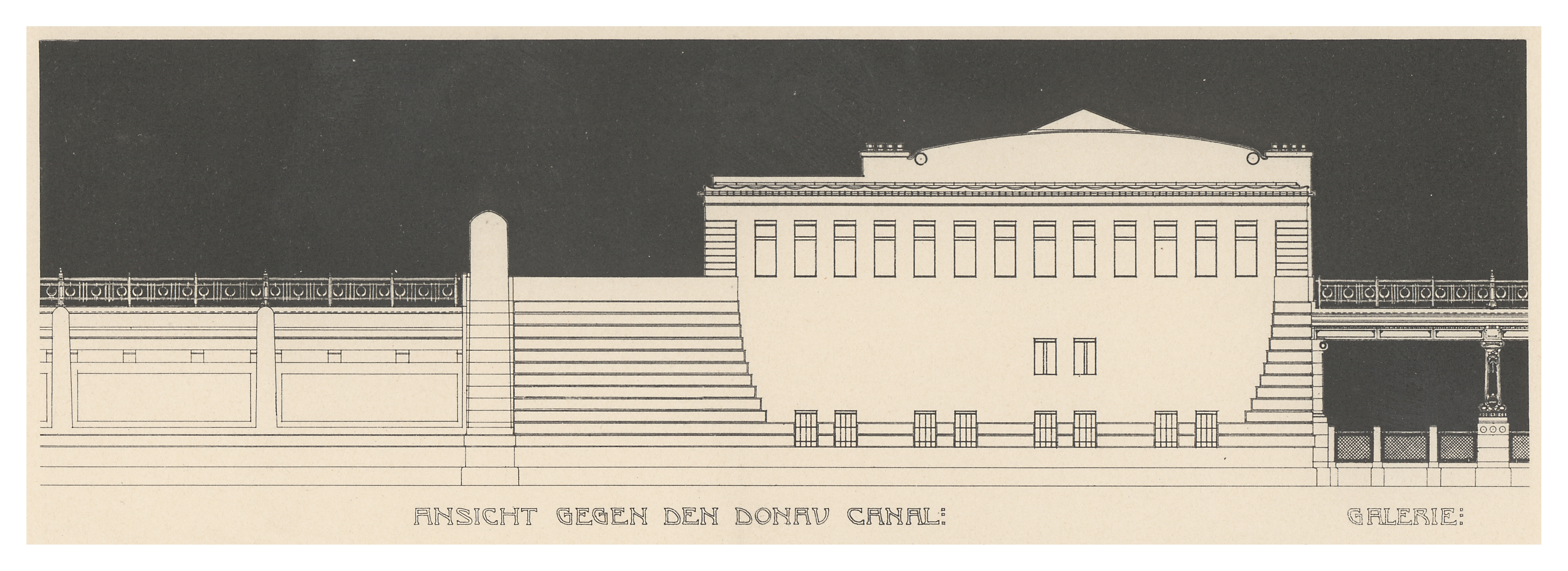 Stadtbahnhaltestelle Schottenring Bd. III 2. Heft Concept, not realized Scanprojekt Bundesdenkmalamt Österreich This scan or this PDF-file was created within the Austrian Wikipedia-project Denkmalpflege Österreich (German only) supported by Wikimedia Germany and Wikimedia Austria as part of the Wikipedia community-project to collect public domain documents from the library of the Heritage Monuments Board of Austria. This document describes or depicts an object which is located in Austria today. Send requests for uncompressed scans to Hubertl. This work is in the public domain in the United States, and those countries with a copyright term of life of the author plus 100 years or less. This file has been identified as being free of known restrictions under copyright law, including all related and neighboring rights.